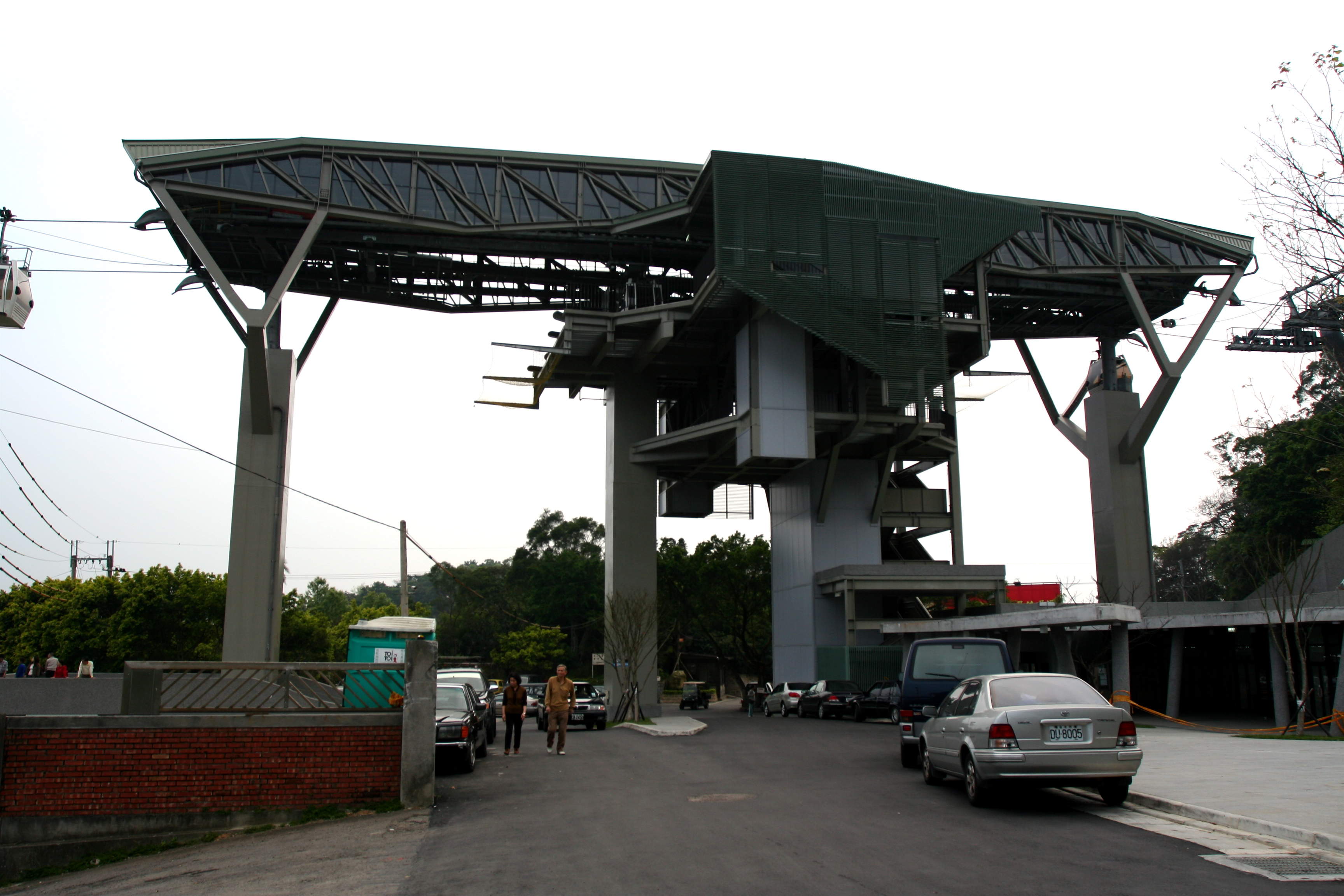 Maokong Gondola Zhinan Temple Station befiore Open.